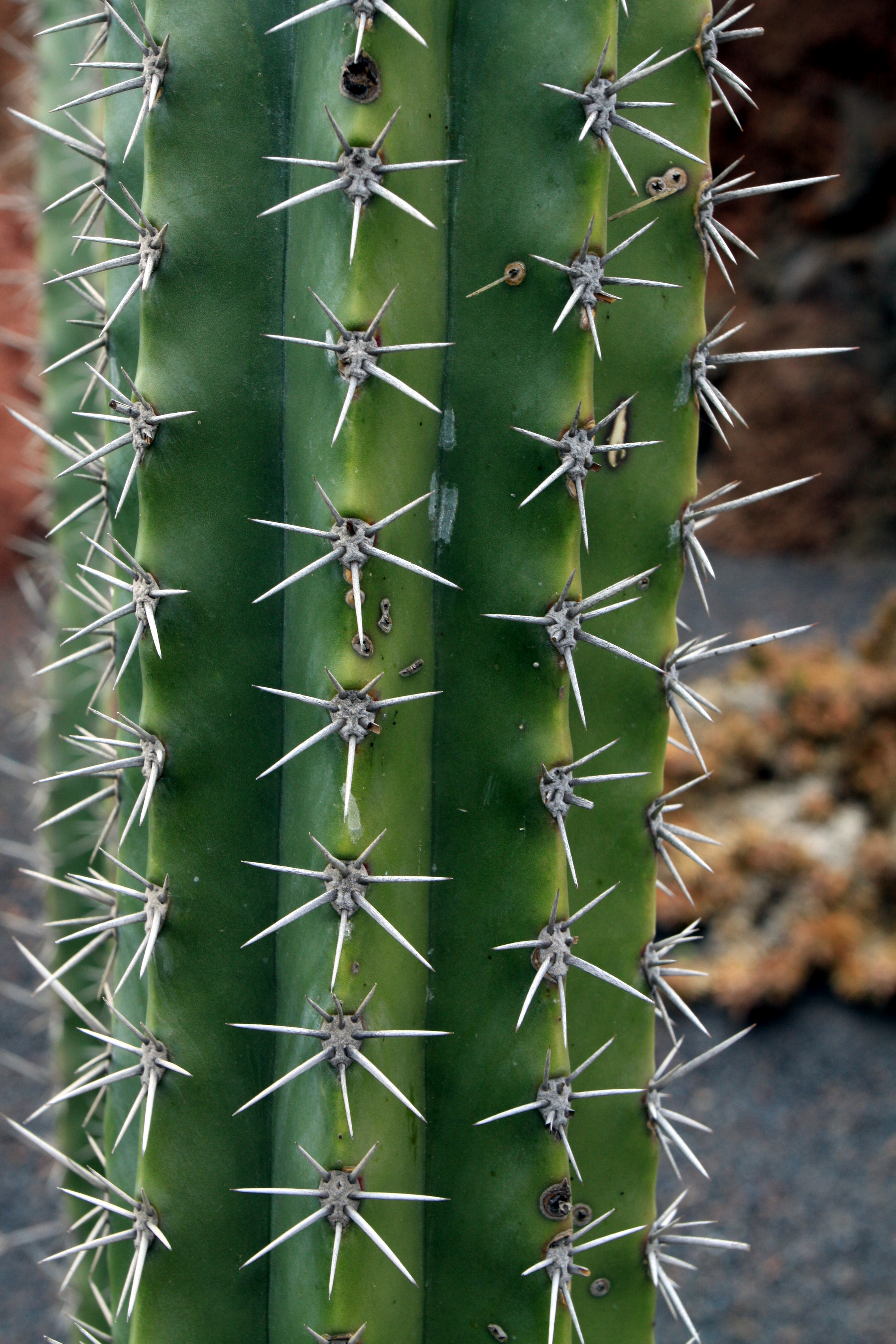 Stenocereus dumortieri in the Jardin de Cactus in Guatiza on Lanzarote, The Canary Islands, Spain